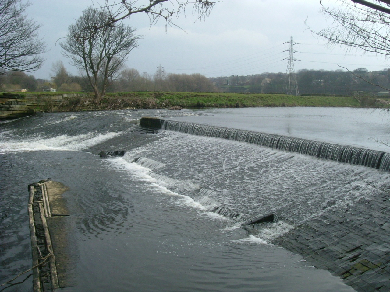 A weir on the River Calder, taken by Harry Wheildon on 24th March, 2007.